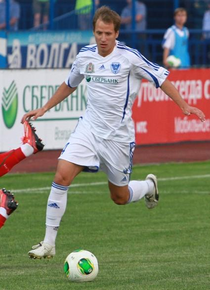 Anton Putsila playing for FC Volga Nizhny Novgorod.